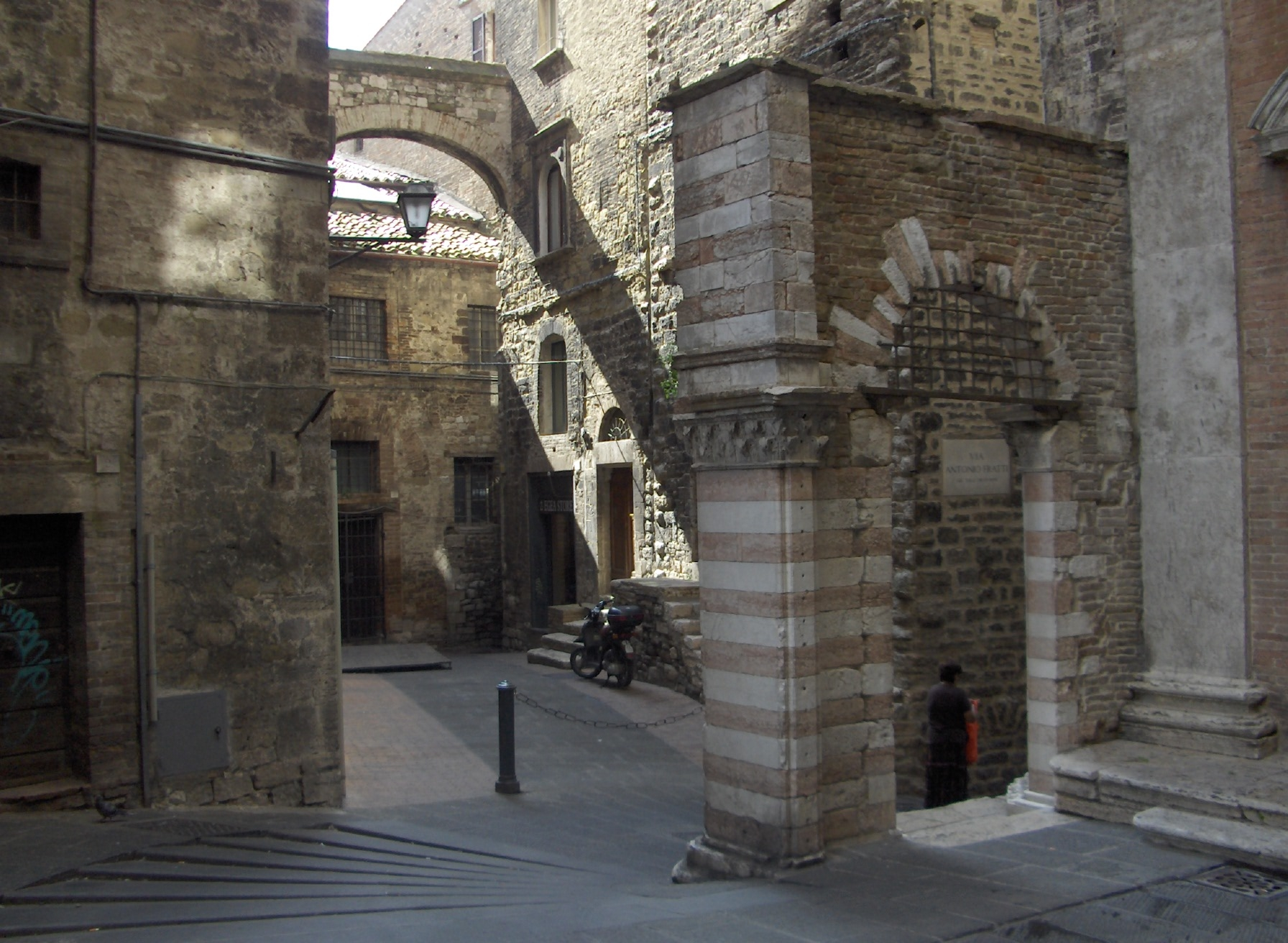 Old part of the town of Perugia in Via Maestà delle Volte. Source: photo uploaded by User:RicciSpeziari. Photographer: Basilio Speziari